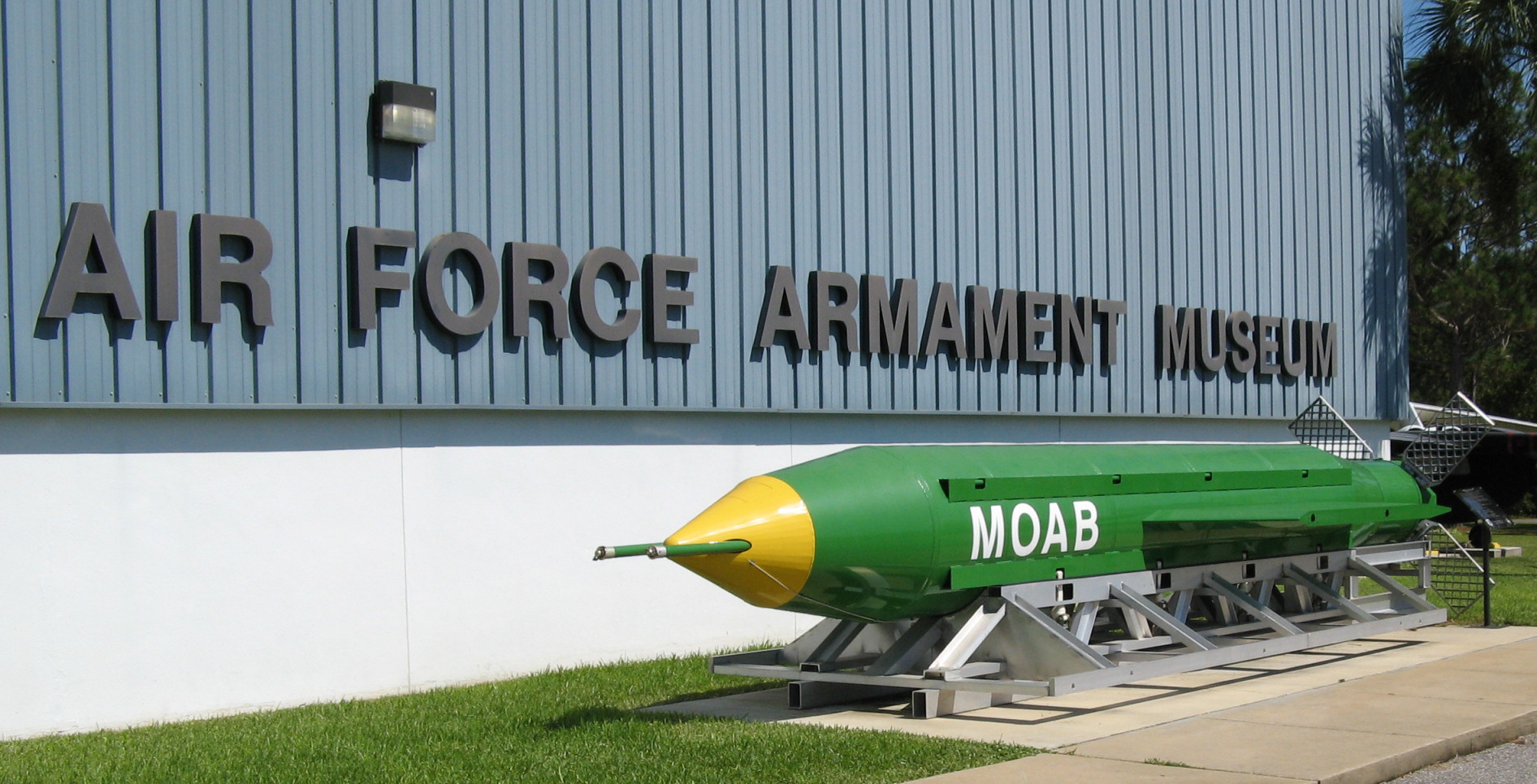 MOAB glide bomb, USAF Armaments Museum, Eglin AFB, Florida